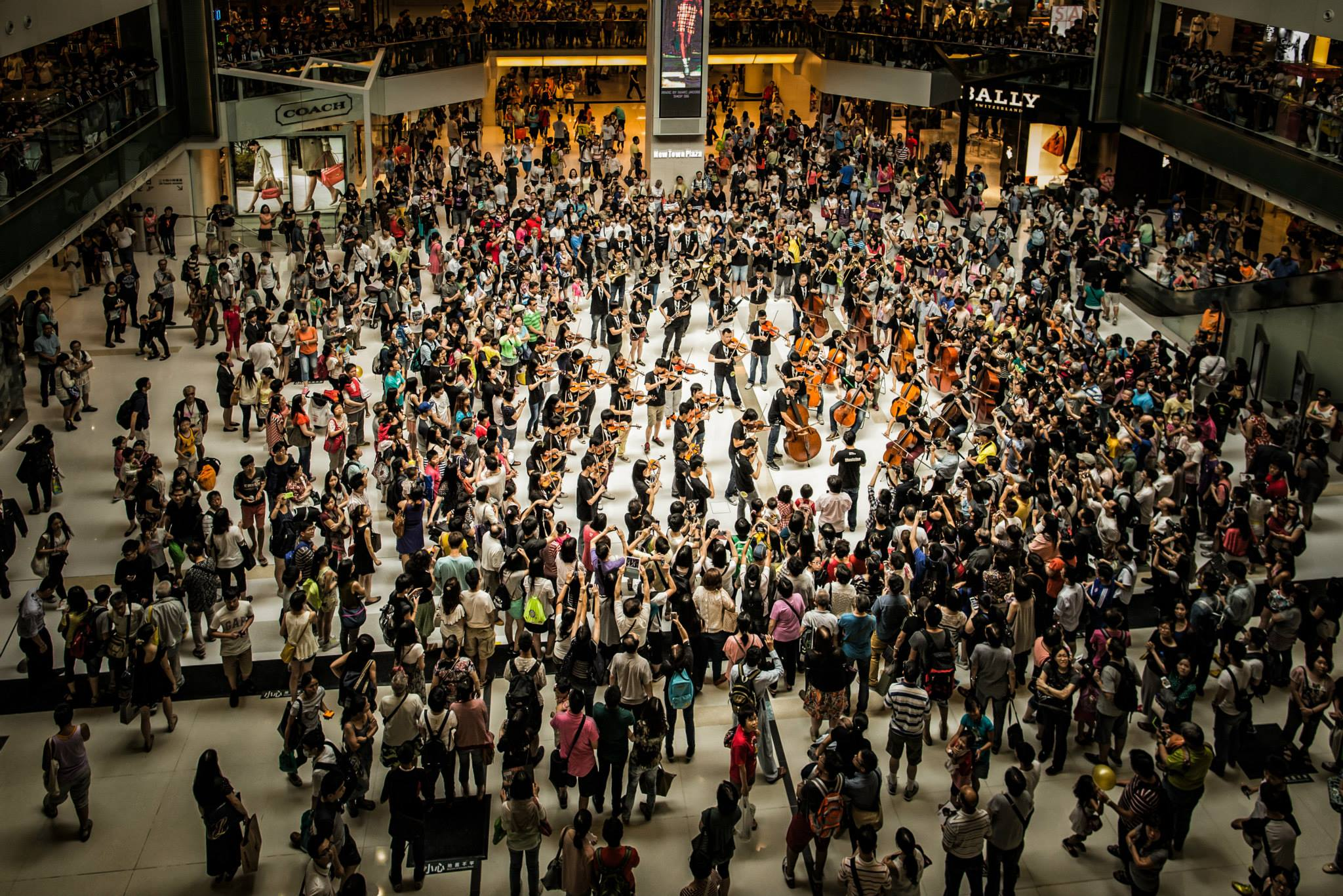 HKFO performs the Beethoven "Ode to Joy" Flash Mob, Hong Kong's largest choral-orchestral flash mob at Shatin New Town Plaza on 28 July 2013.